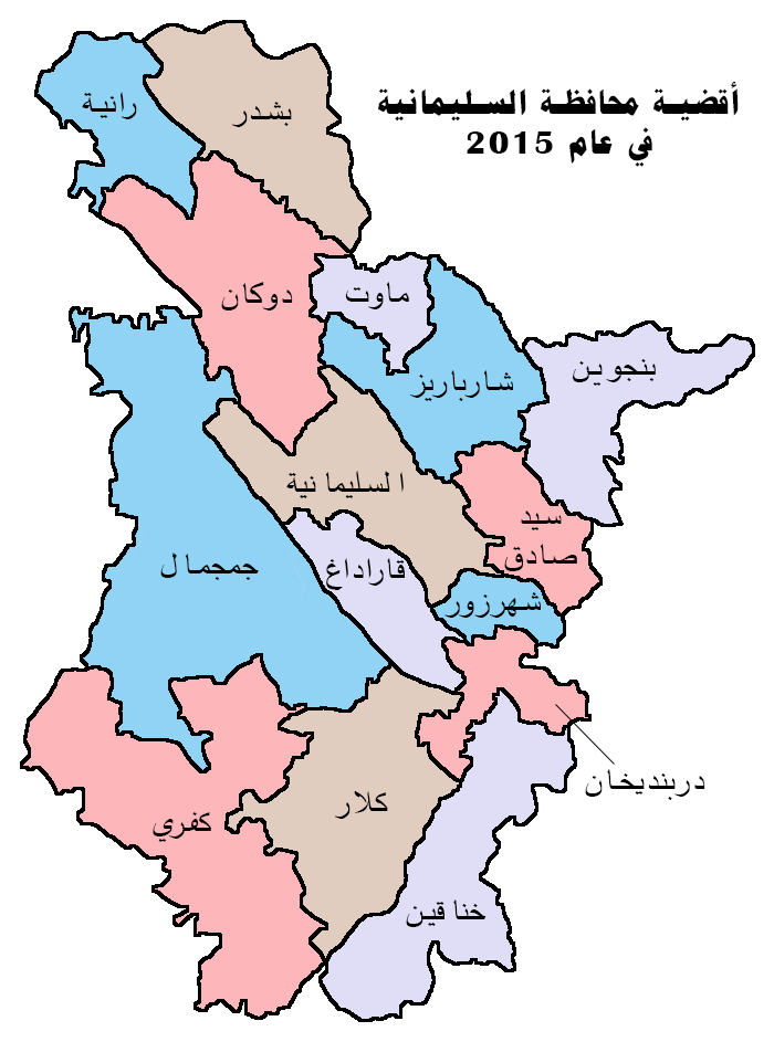 Map showing the districts of the Silêmanî (Sulaymaniyah) Governorate of Kurdistan Region in Iraq (in 2015).